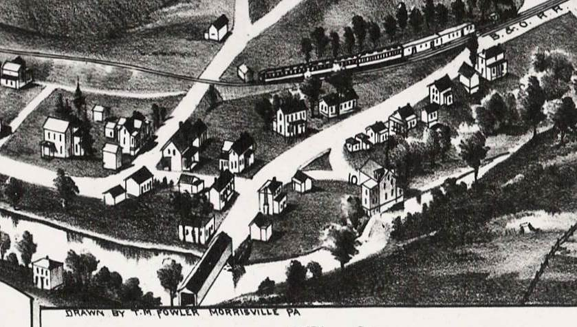 Detail of Fowler's "West Union, West Virginia, USA, 1899".